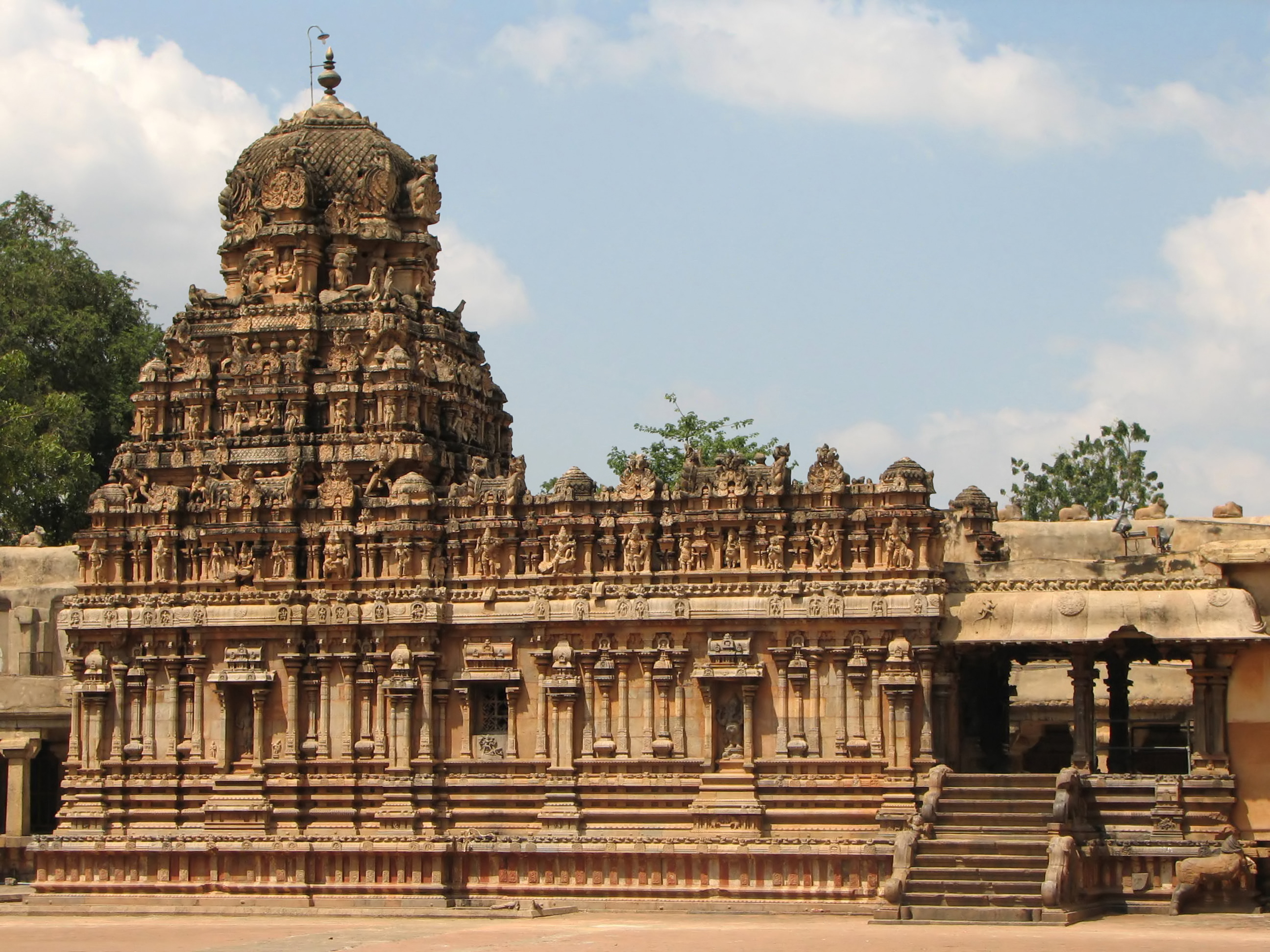 Shrine of Sri Subramanya in Brihadeeswarar Temple complex, Thanjavur, India